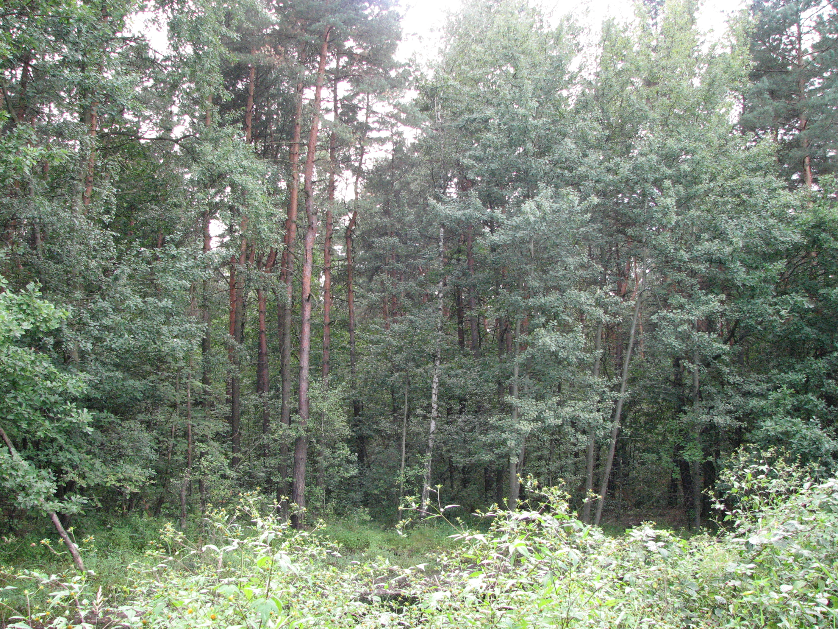 Panewniki's Forests in Katowice, Poland